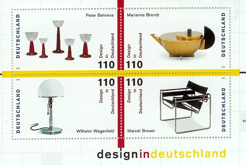 Bauhaus designs on german postage